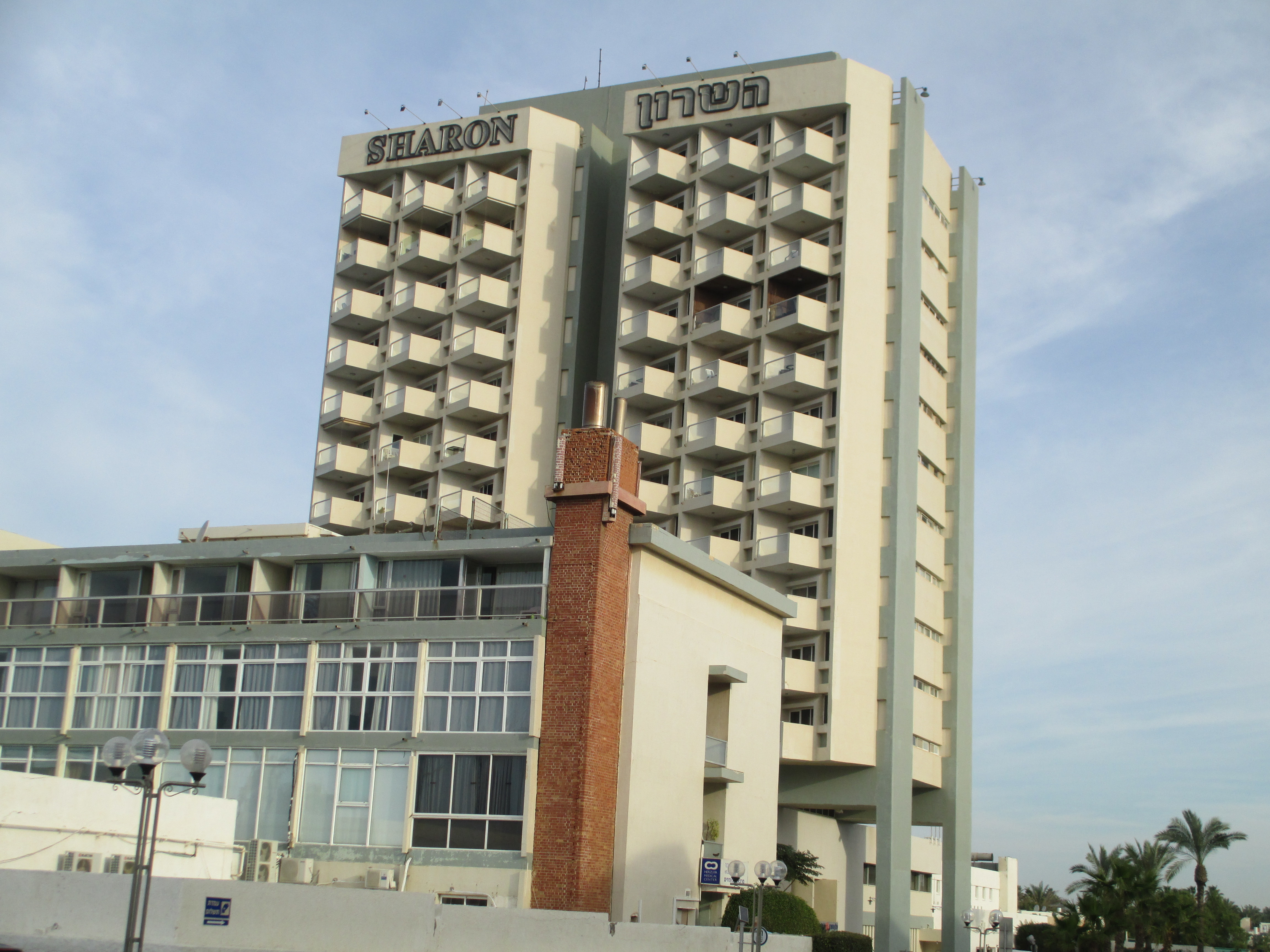 The Sharon Hotel in Herzliya